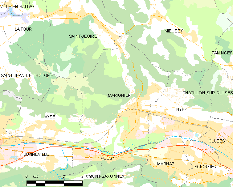 Map of French municipality Marignier